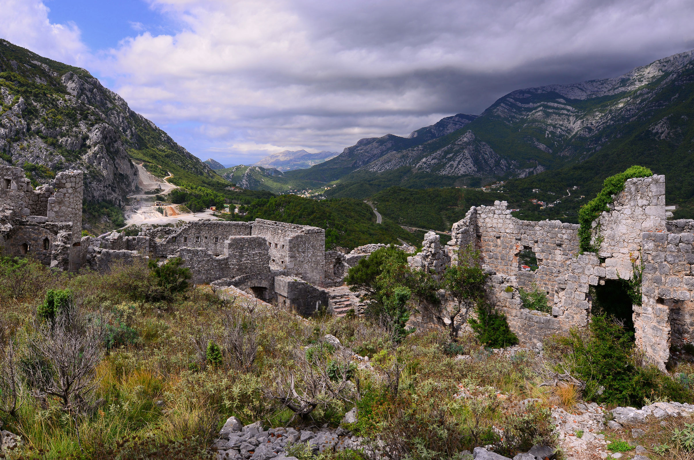 Montenegro (Crna Gora), ruins of Haj-Nehaj fortress near Sutomore. View towards Haj-Nehaj quarry